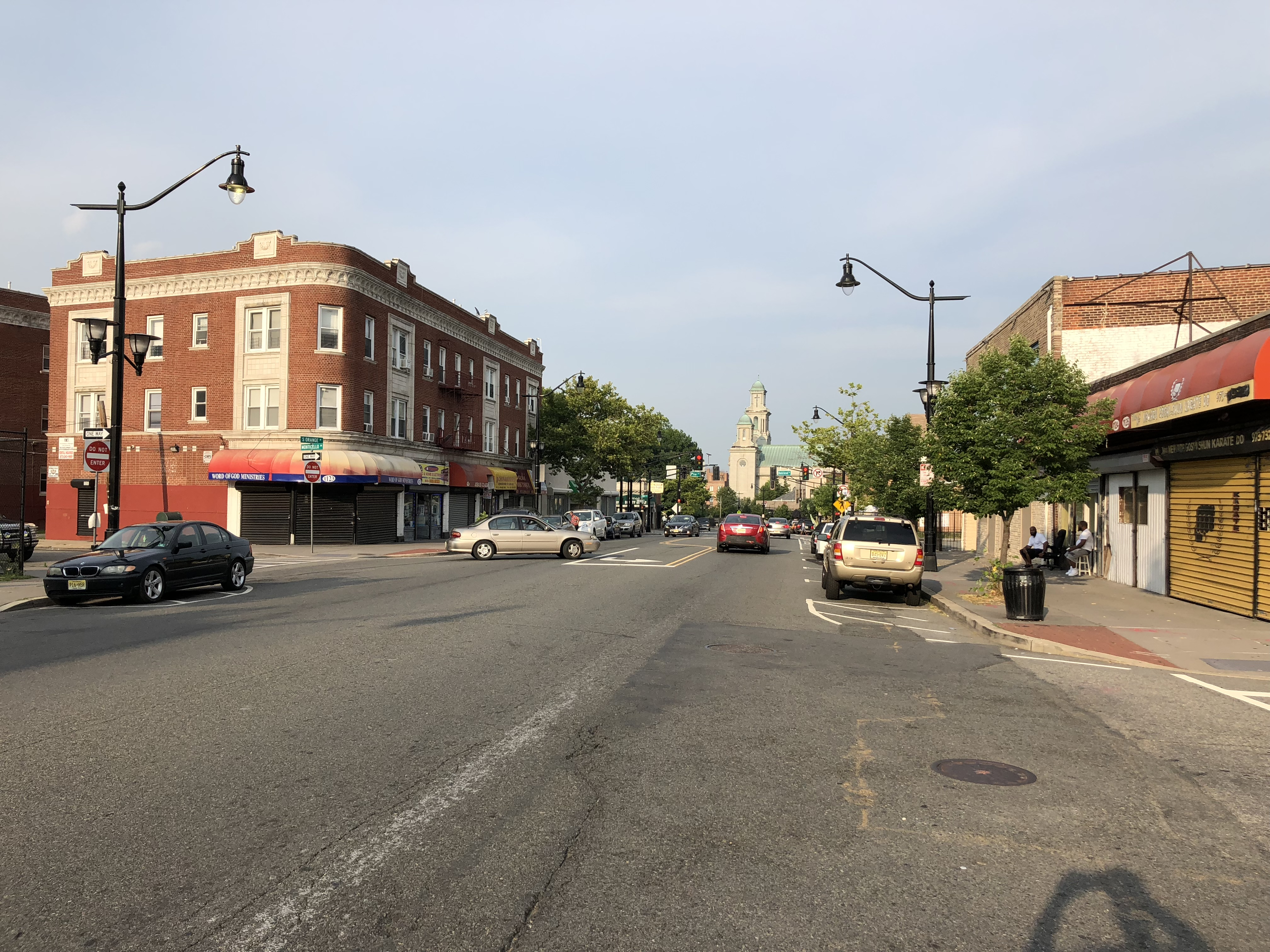 View east along Essex County Route 510 (South Orange Avenue) at Saint Paul Avenue in Newark, Essex County, New Jersey